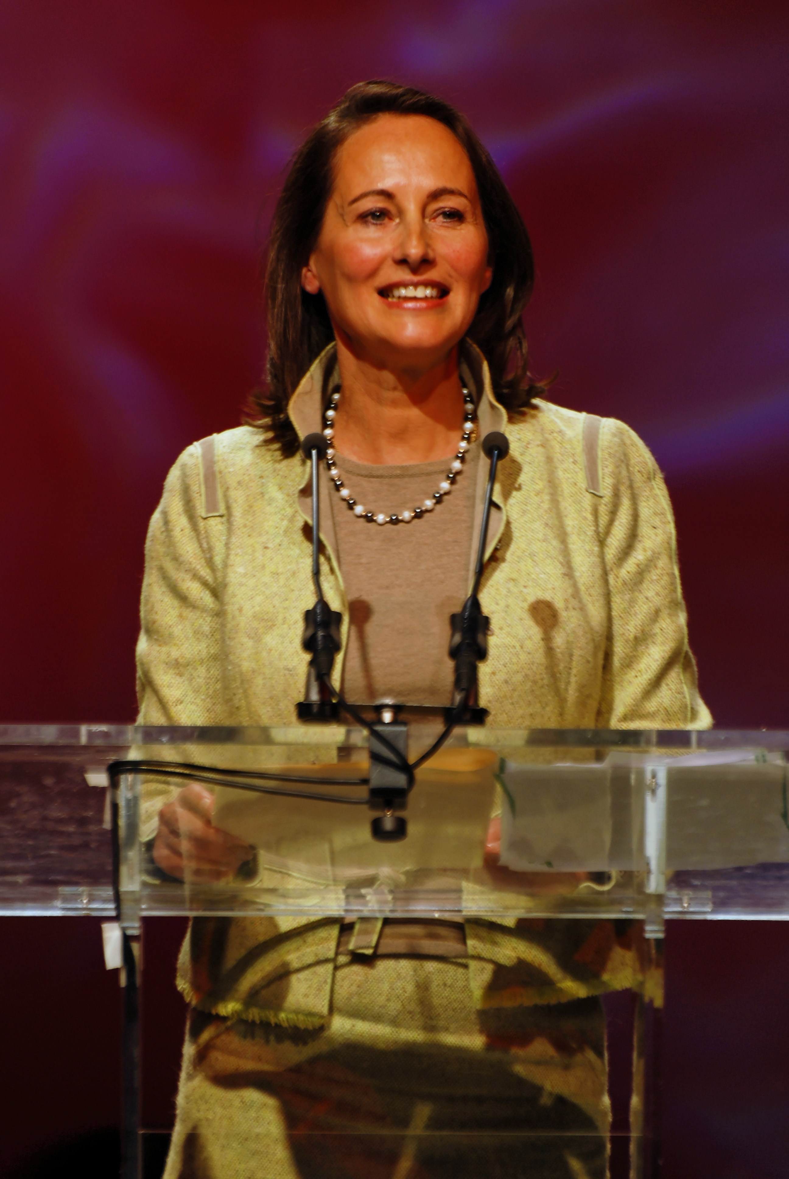 French politician and finalist at the French presidential election (2007) Ségolène Royal supporting Pierre Cohen's candidacy for the French town elections in Toulouse, 2008.